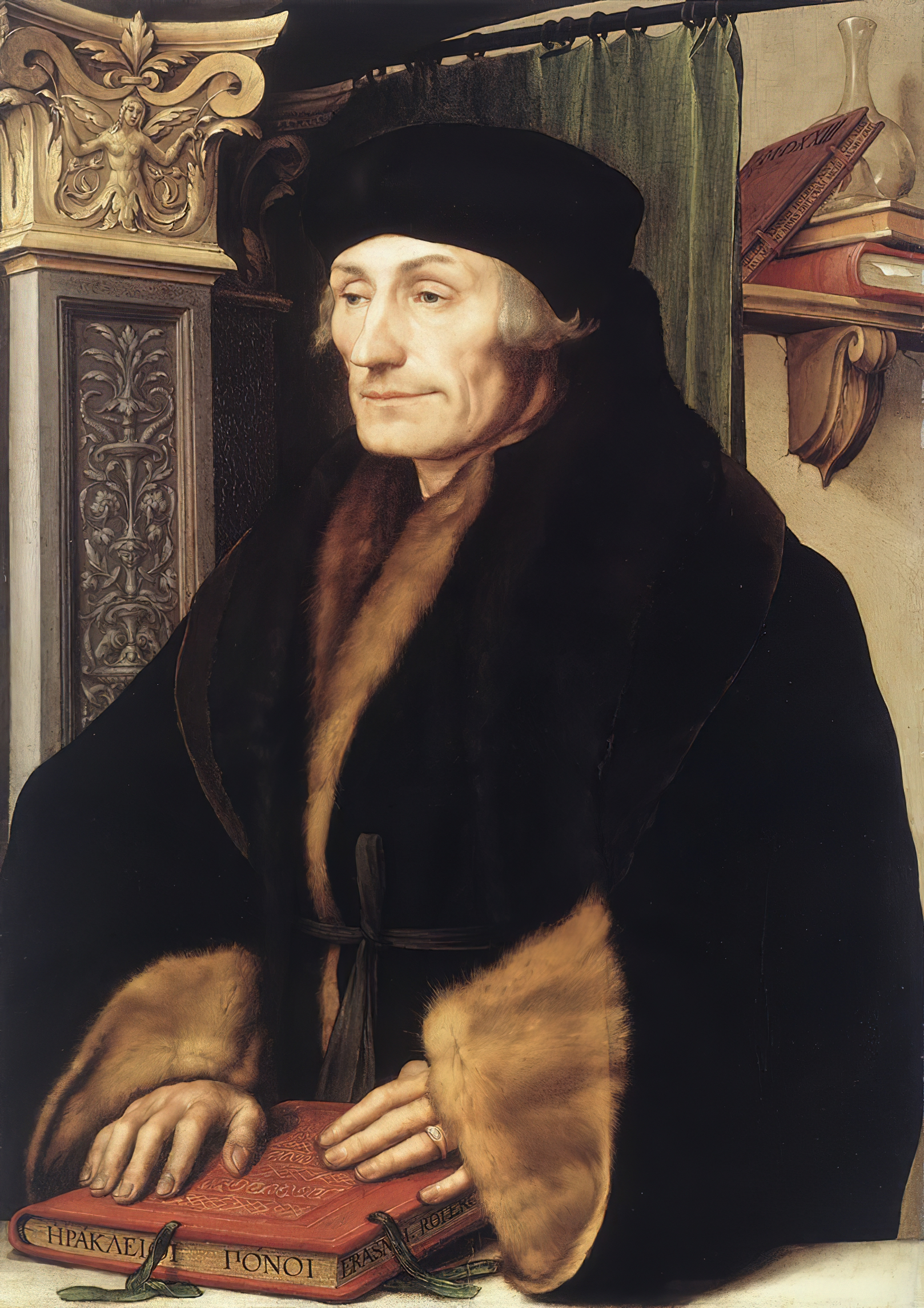 Portrait of Desiderius Erasmus of Rotterdam with Renaissance Pilaster. Desiderius Erasmus of Rotterdam (1466/69–1536) was a renowned humanist scholar and theologian. He moved in 1521 to Basel, the city where Hans Holbein the Younger lived and had his workshop. Such was the fame of Erasmus, who corresponded with scholars throughout Europe, that he needed many portraits of himself to send abroad. Holbein painted three much-copied portraits of Erasmus in 1523, of which this is the largest and most elaborate. It is likely the one sent to William Warham, Archbishop of Canterbury, in England. Holbein later painted Warham after he travelled to England in 1526 in search of work, with a recommendation from Erasmus, who had once lived in England himself. Holbein's portrait of Erasmus includes a Latin couplet by the scholar, inscribed on the edge of the leaning book on the shelf, which states that Holbein would rather have a slanderer than an imitator. According to art historian Stephanie Buck, this portrait is "an idealized picture of a sensitive, highly cultivated scholar, and this was precisely how Erasmus wanted to be remembered by future generations" (Stephanie Buck, Hans Holbein, Cologne: Könemann, 1999, ISBN 3829025831, p. 50).